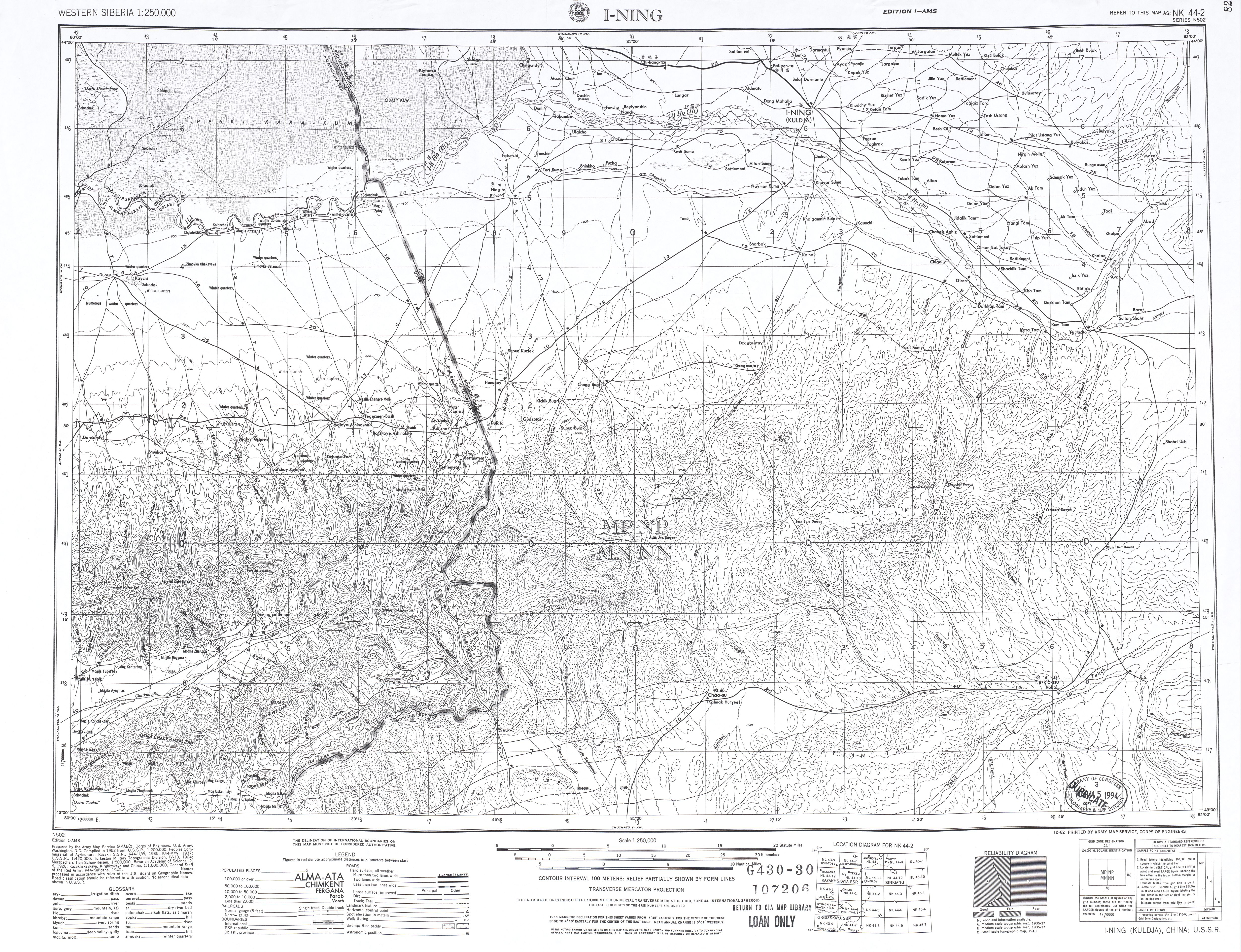 List from Western Siberia AMS Topographic Maps. Series N502, U.S. Army Map Service, 1955. Map of Yining (I-ning, Kuldja) area.